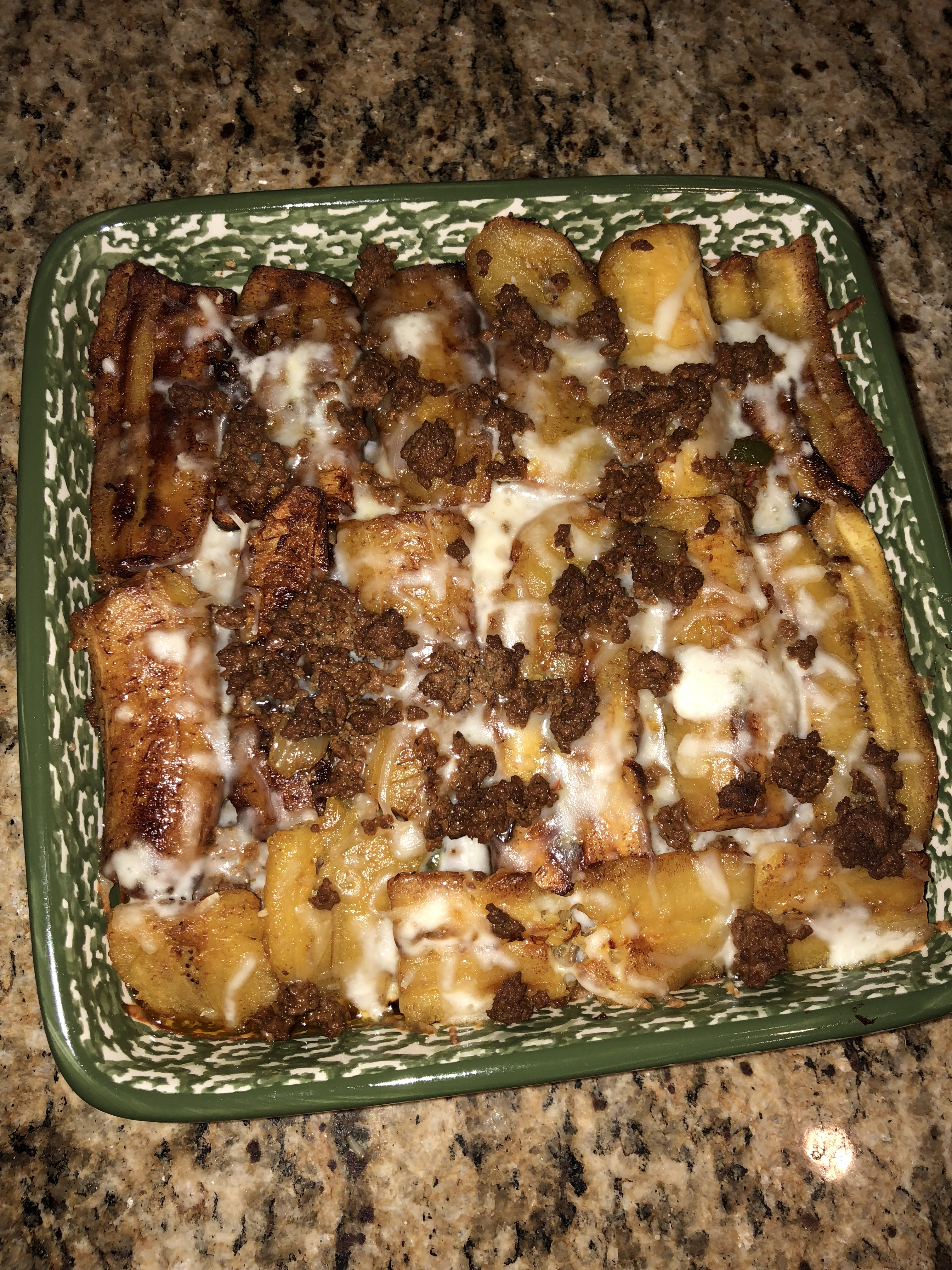 Pastelón